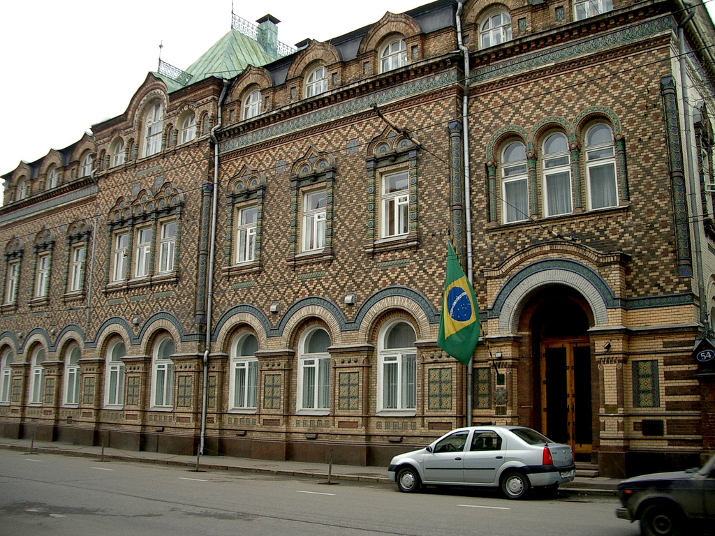 Brazilian Embassy in Moscow, Russian Federation.